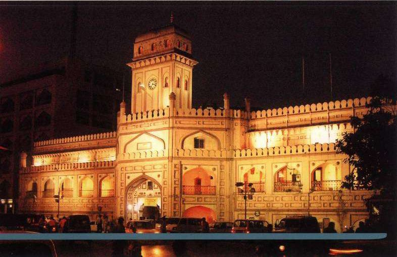 surat